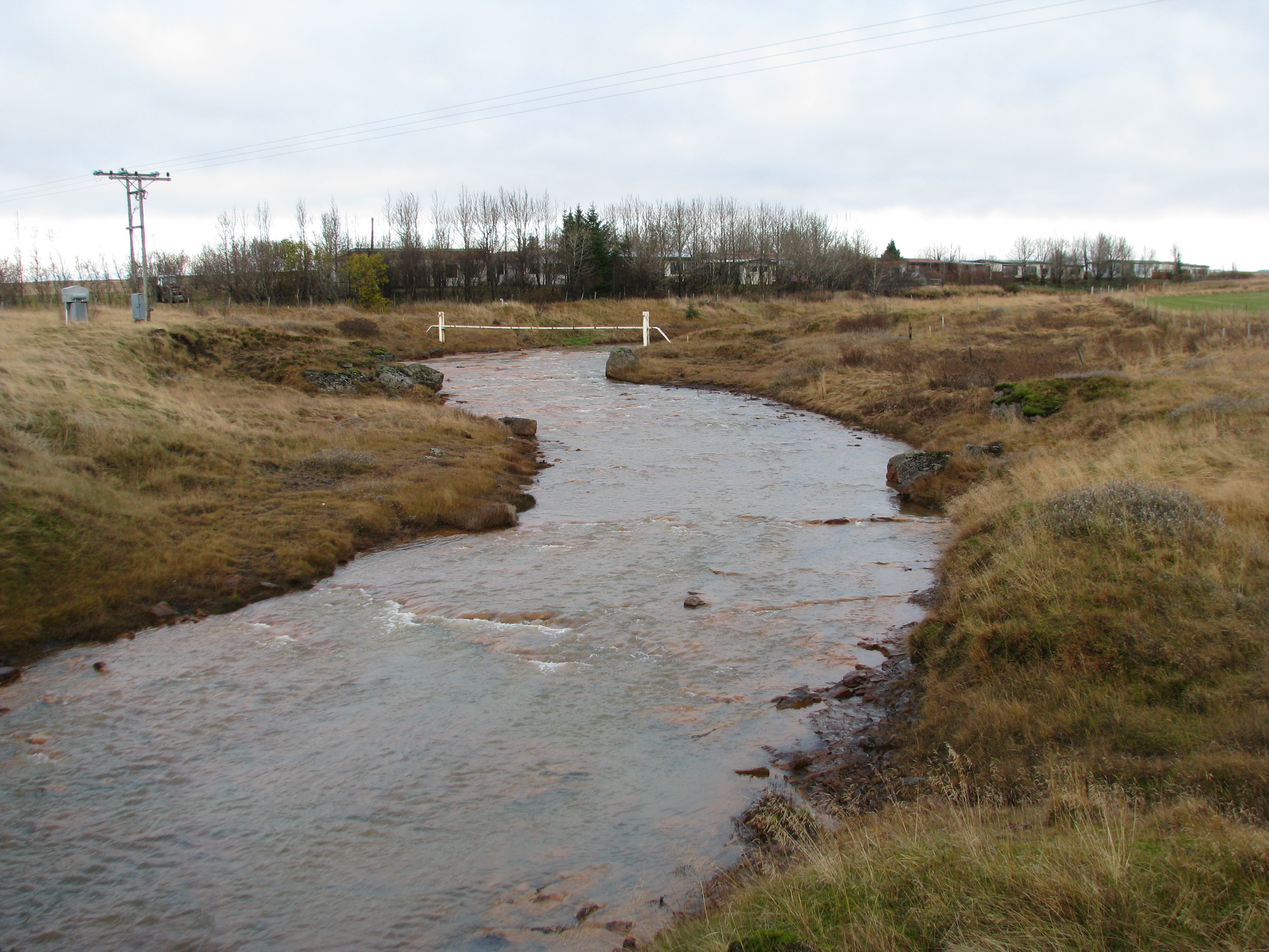 Rauðilækur, a small town and small river in South-Iceland